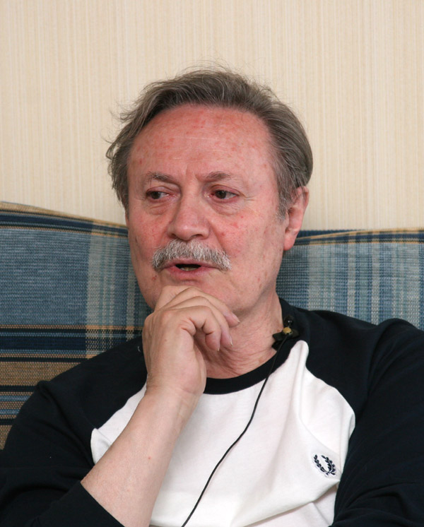 The actor, People's Artist of the USSR Yuri Solomin